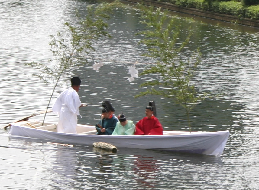 Osaka Tenjinmatsuri Hokonagashi